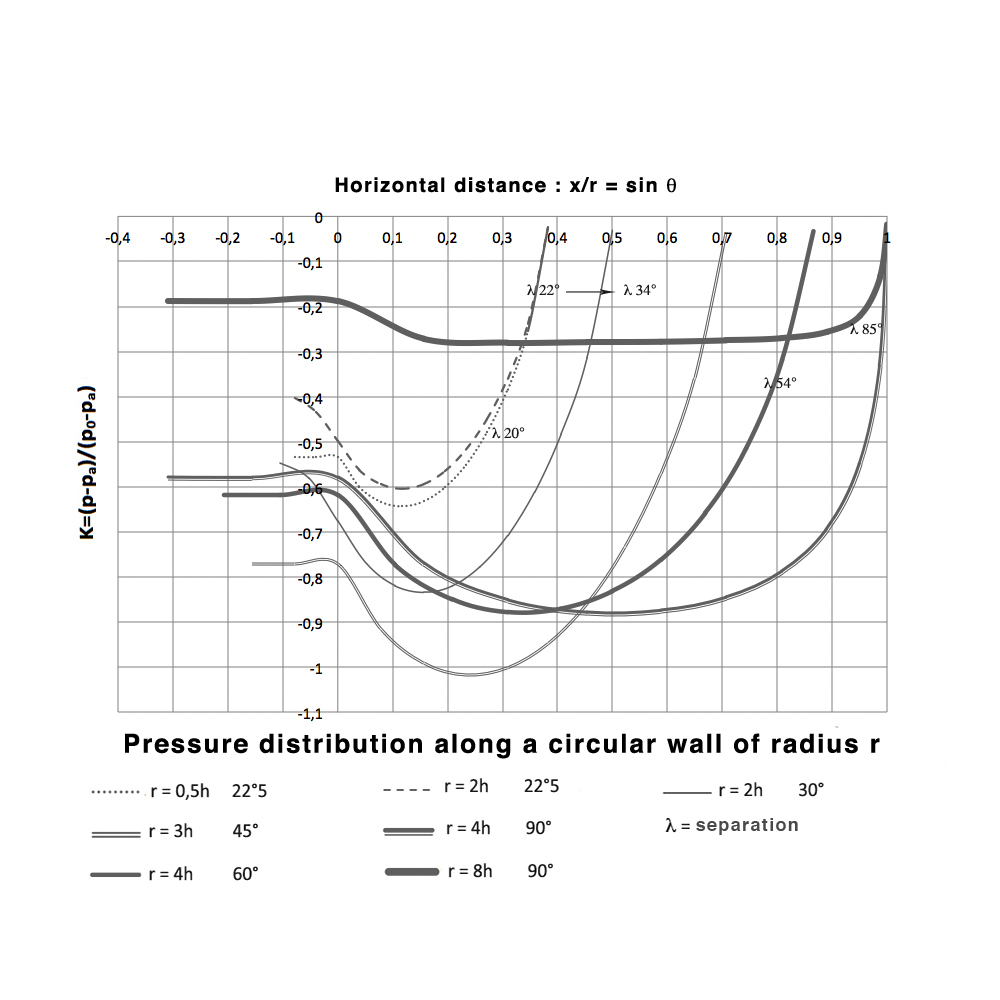 Inviscid flow of a wall jet of width h along a circular wall of radius r is calculated using formulae (27) and (29) from L.C. Woods: Compressible subsonic flow in two-dimensional channels with mixed boundary conditions, in: Quart. Journ.Mech.and Applied Math., Vol VII, Pt.3 (1954). The deviation angle must be given for the calculation: the angle found in experiments made by the author M. Kadosch in 1956 was chosen, and is here compared with the separation angle found in a calculation of the separation of the boundary layer due to the calculated pressure gradient along the wall (Kadosch M.: The curved wall effect in: 2nd Cranfield Fluidics Conference, Cambridge, 1967-01-03). Also this theoretical pressure is compared with the experimental pressure along the wall found by the author Kadosch M.: Déviation d'un jet par adhérence à une paroi convexe, in: Journal de Physique et le Radium, Paris, Avril 1958, p. 9A According to : Van Dyke, M. (1969), Higher-Order Boundary-Layer Theory, Annual Review of Fluid Mechanics, quoted in : "Lift (force)-Wikipedia, the free encyclopedia," the derivation of his equation (4c) shows that the contribution of viscous stress to flow turning is negligible.